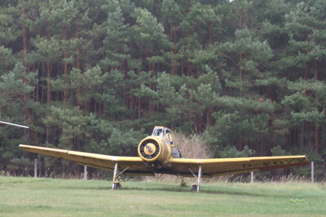 Let Z-37 Cmelak agricultural plane at Hans-Grade-Museum in Borkheide. Version with higher resolution is available